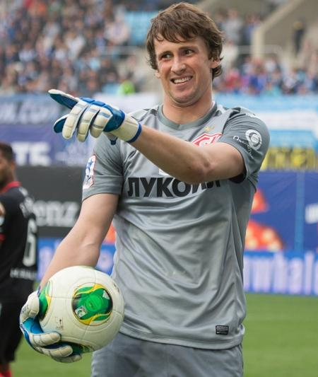 Sergey Pesyakov with FC Spartak Moscow in 2013.